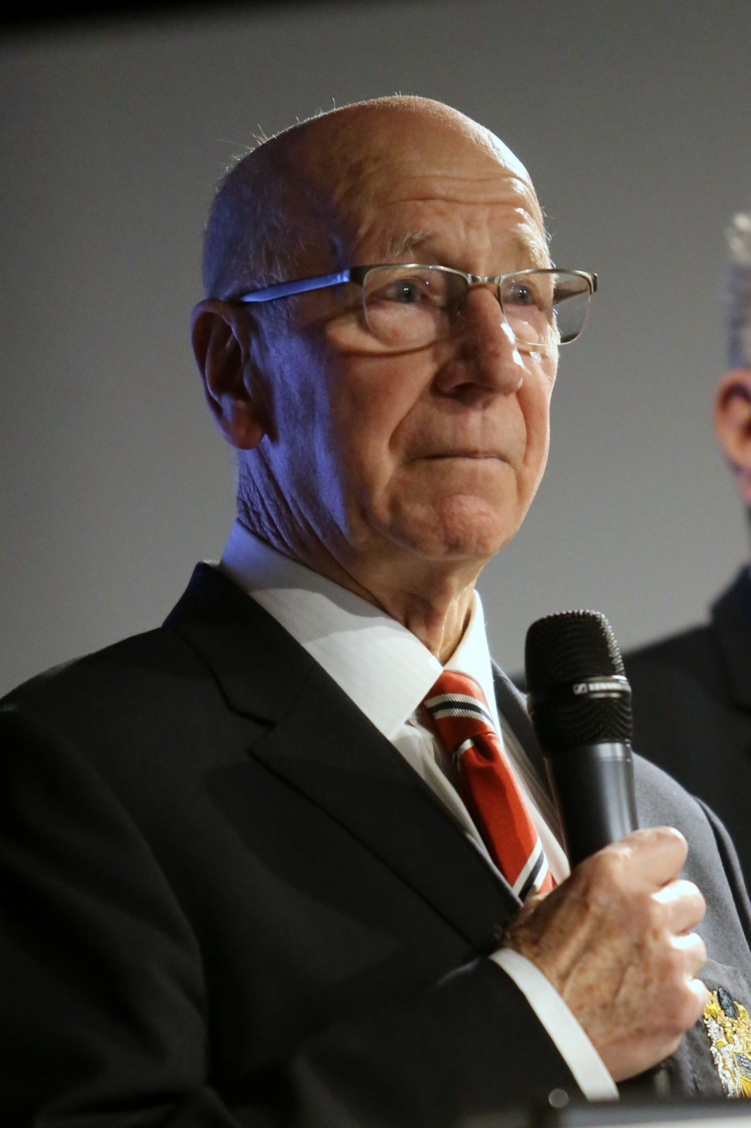 Sir Bobby Charlton, former player of Manchester United, speaking on the podium during the commemoration of the 1958 airplane crash in Munich, where eight players of Manchester United have been killed, at Allianz Arena on February 6, 2015 in Munich, Germany